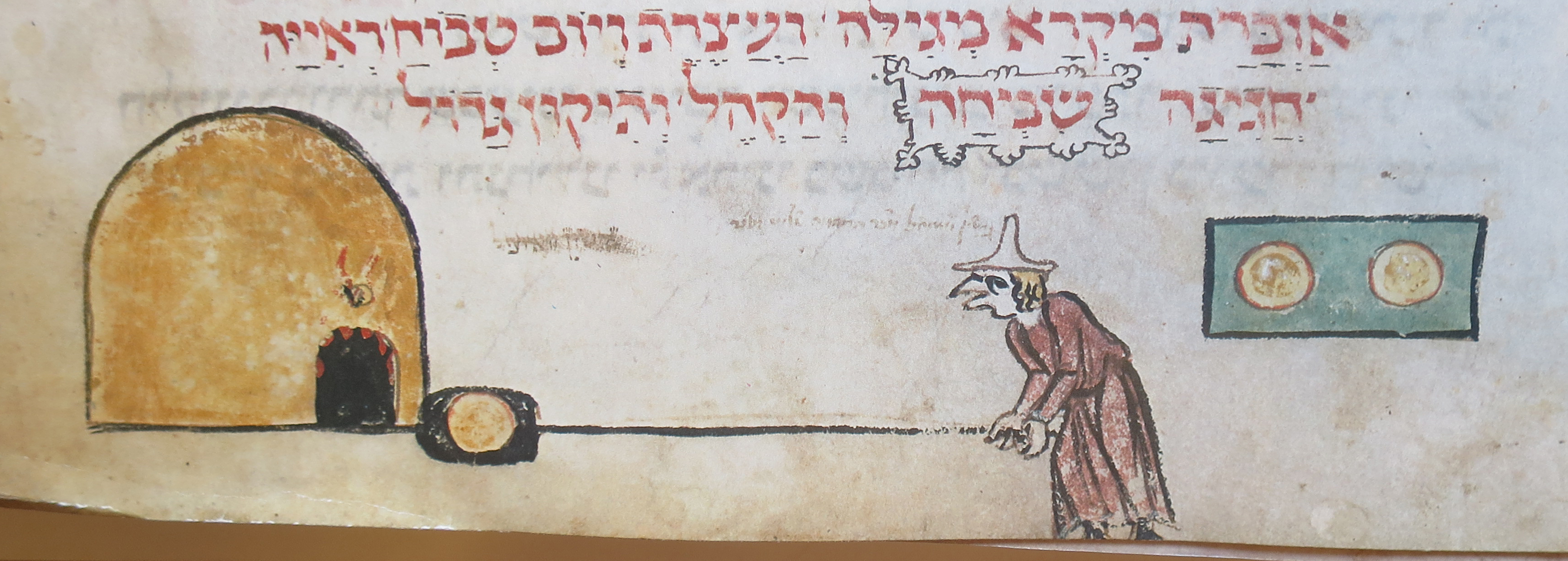 Machsor of Worms: Baking Matzo